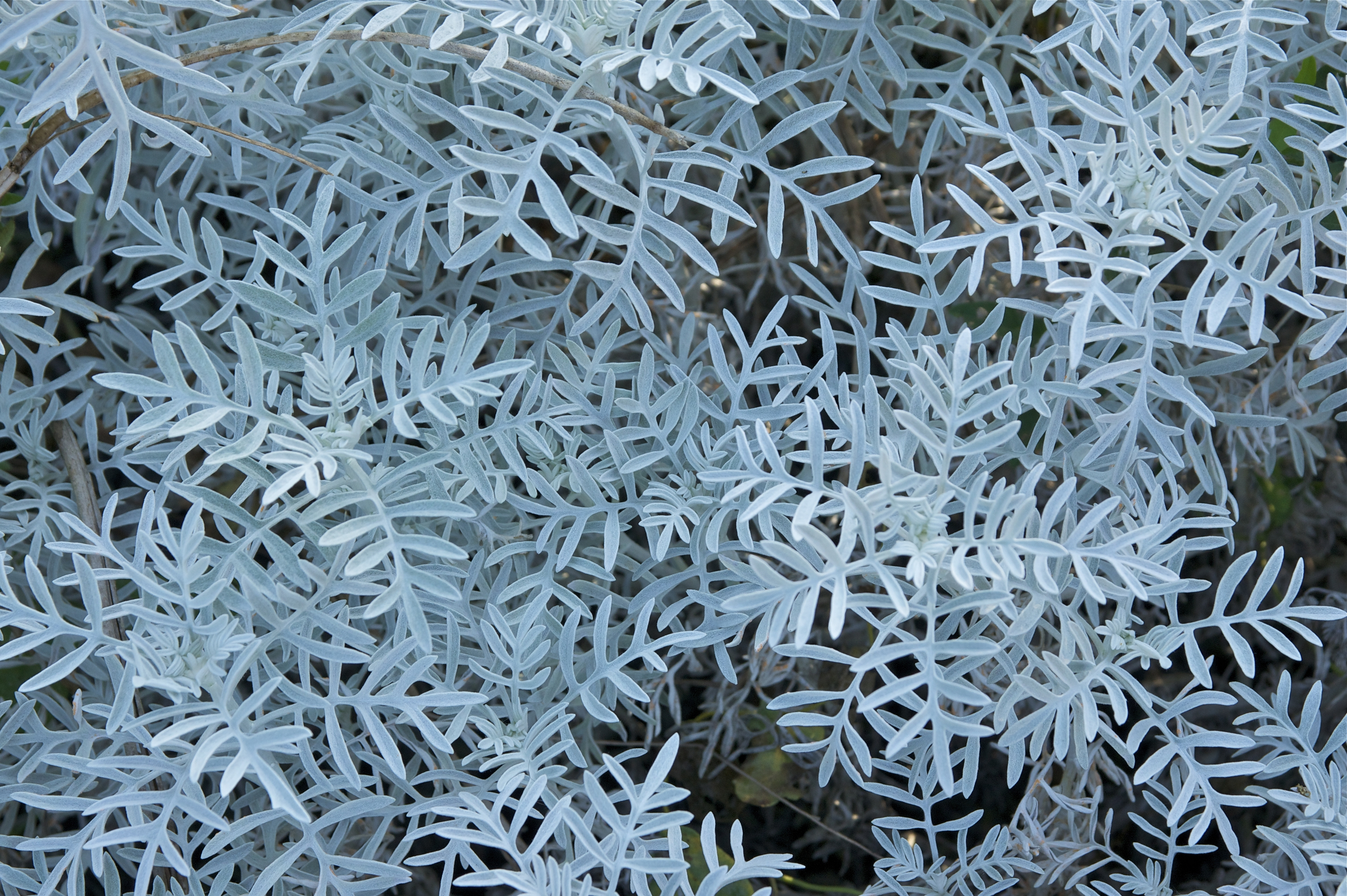 Senecio vira vira Hieron. Jardin des Plantes, Paris, France.